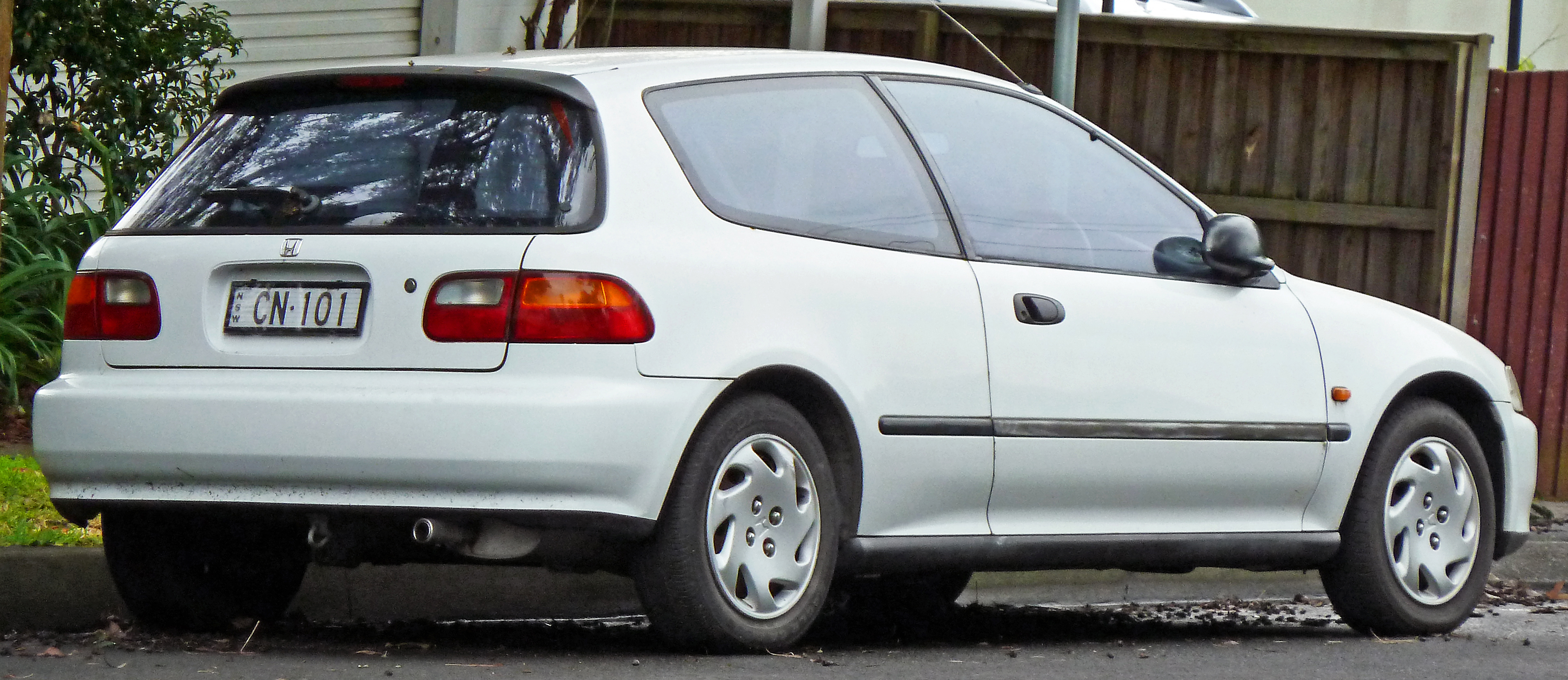 1991–1995 Honda Civic Breeze 3-door hatchback. Photographed in Gordon, New South Wales, Australia.